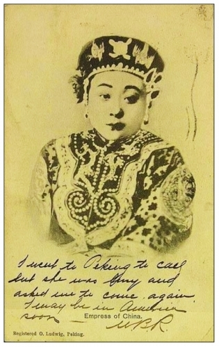 Imperial Consort Jin